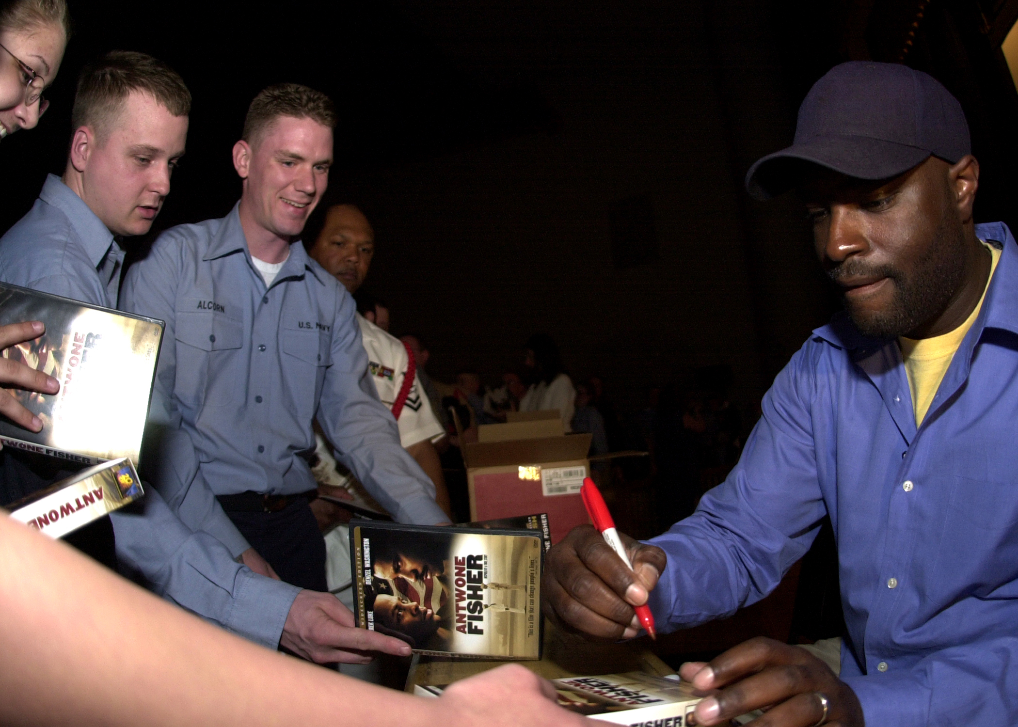 Naval Station Great Lakes, Ill. (May 13, 2003) -- Antwone Fisher speaks to Sailors gathered in Naval Station Great Lakes’ Ross Auditorium about his experiences in the Navy and his autobiography "Finding Fish," the basis for the critically acclaimed movie "Antwone Fisher" released earlier this year. Fisher, orphaned at birth, served 11-years in the Navy and credits the Navy with being his first family. Fisher spoke to more than 1,500 Sailors at Great Lakes including 450 during their in-processing day brief at Recruit Training Command. U.S. Navy photo by Photographer's Mate 1st Class Michael A. Worner. (RELEASED)